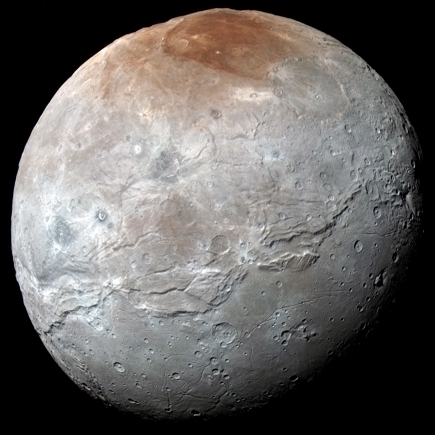 Charon seen from New Horizons, July 14, 2015. Pluto's moon Charon Charon in Enhanced Color NASA's New Horizons captured this high-resolution enhanced color view of Charon just before closest approach on July 14, 2015. The image combines blue, red and infrared images taken by the spacecraft’s Ralph/Multispectral Visual Imaging Camera (MVIC); the colors are processed to best highlight the variation of surface properties across Charon. Charon’s color palette is not as diverse as Pluto’s; most striking is the reddish north (top) polar region, informally named Mordor Macula. Charon is 754 miles (1,214 kilometers) across; this image resolves details as small as 1.8 miles (2.9 kilometers).